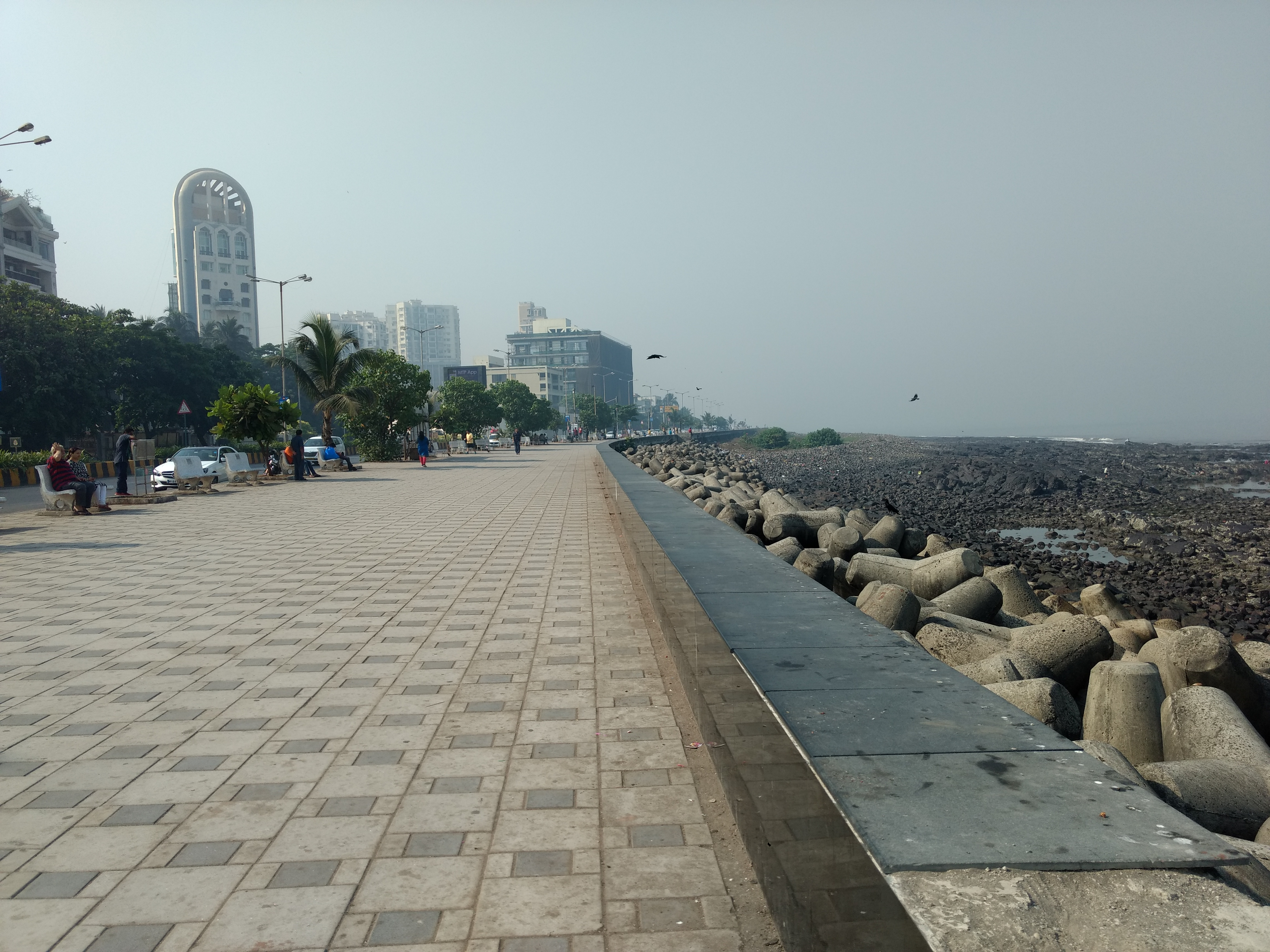 Worli Sea Phase, March 2018